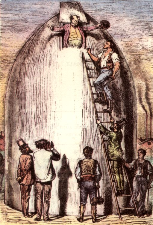 An illustration from the novel "From the Earth to the Moon" by Jules Verne drawn by Henri de Montaut.